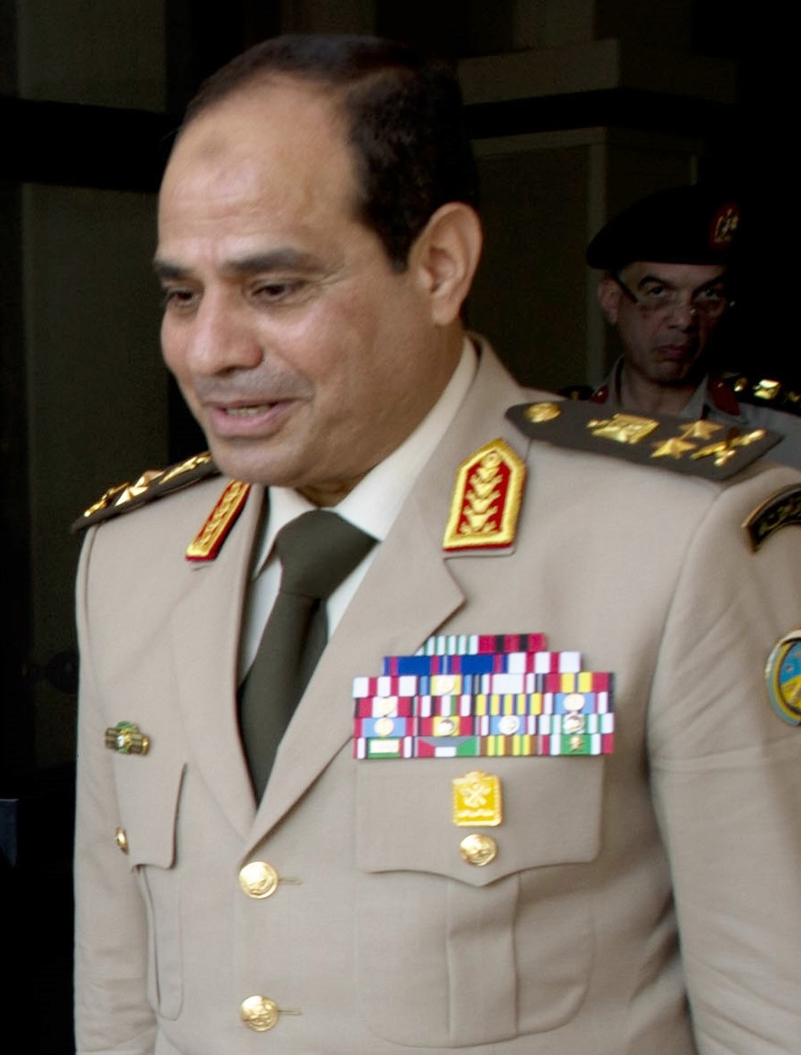 General Al Sisi